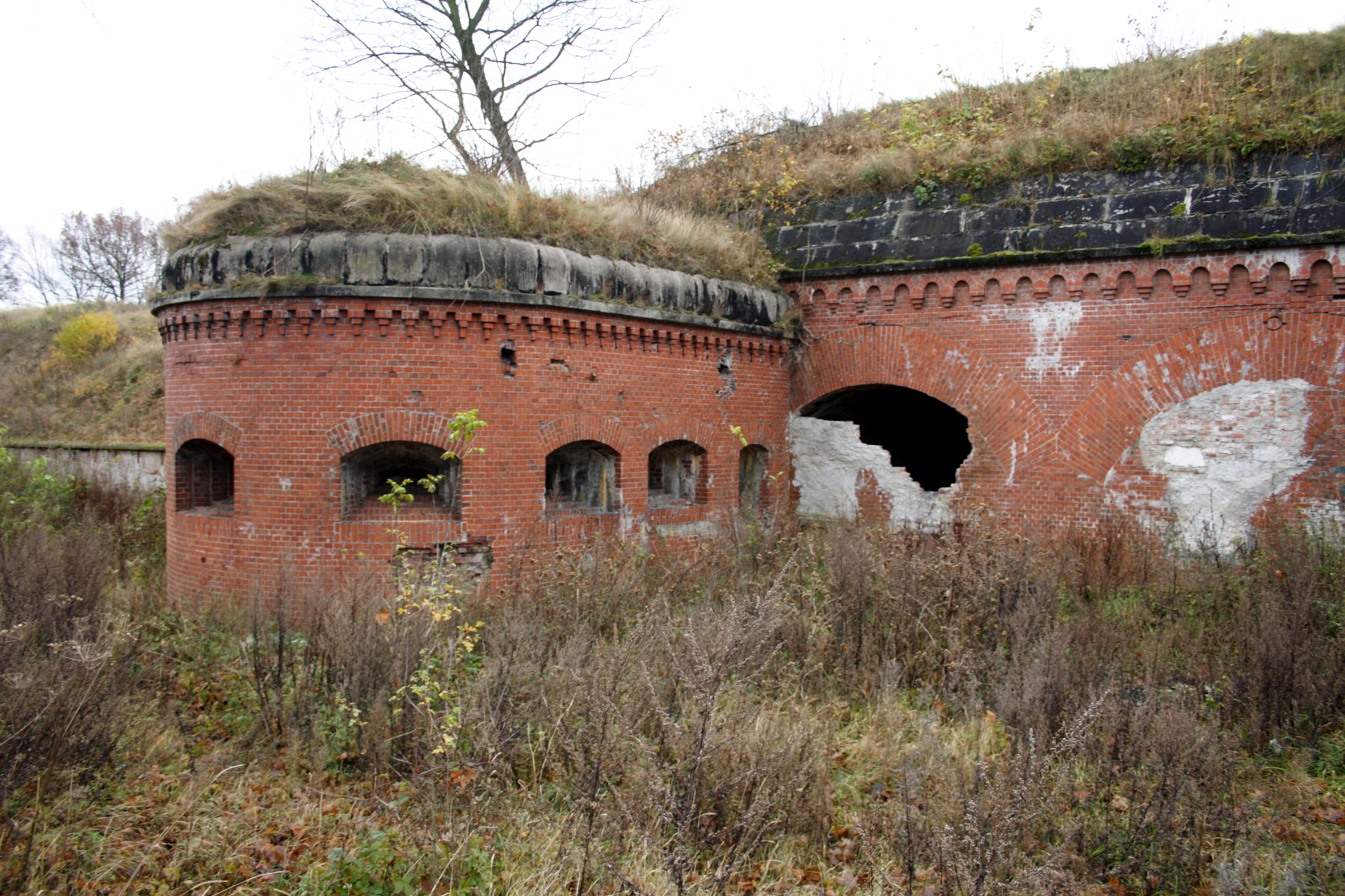 Fort XII Wladyslaw Jagiello, former Fort Va Ulrich von Jungingen, built between 1890 and 1893. Caponier